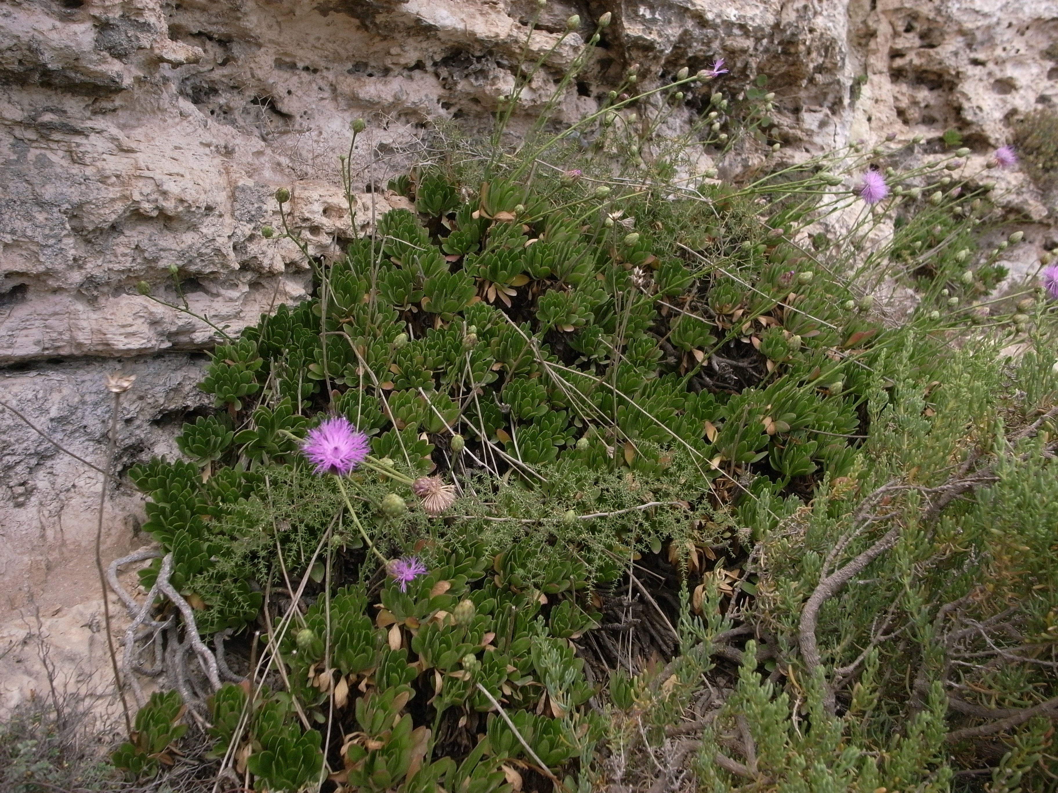 Cheirolophus crassifolius, Malta Thanks to Stephen Mifsud Flowering plant